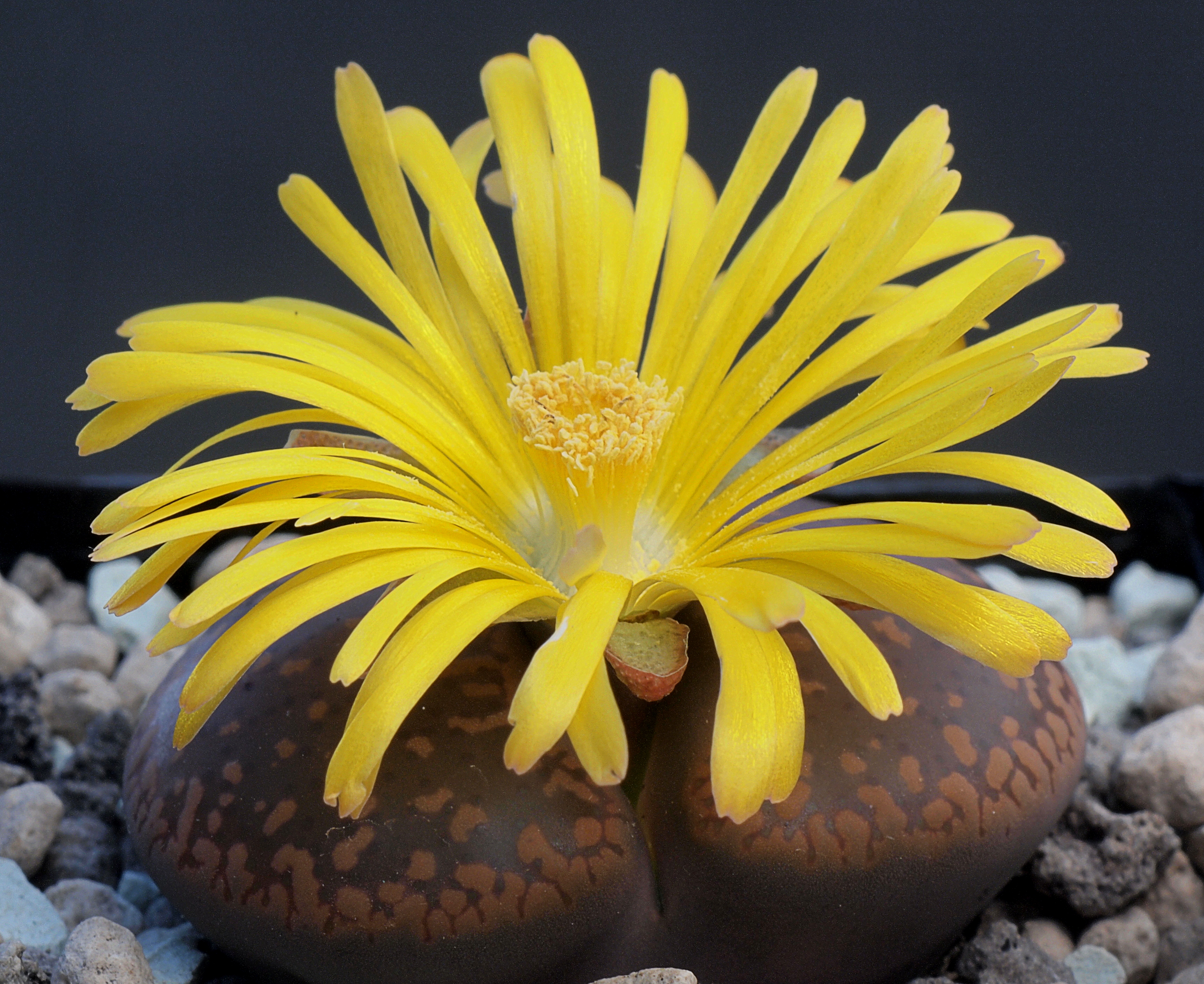 Lithops aucampiae